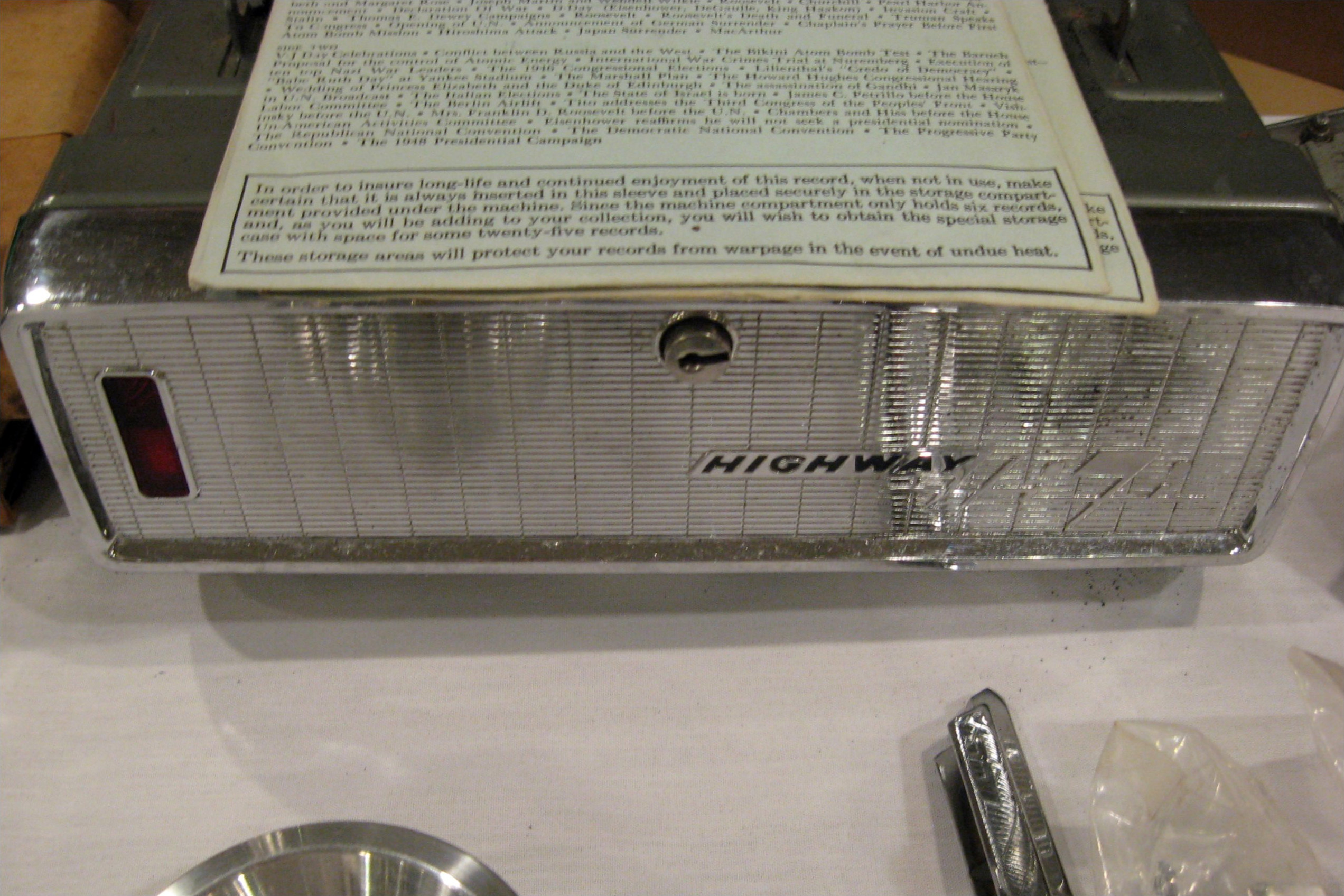 A 1950s Chrysler Automobile Record Player. A record, you know, a vinyl disc that plays music, came in 78s, 45s or LP33s LP=Long Play."@V@".